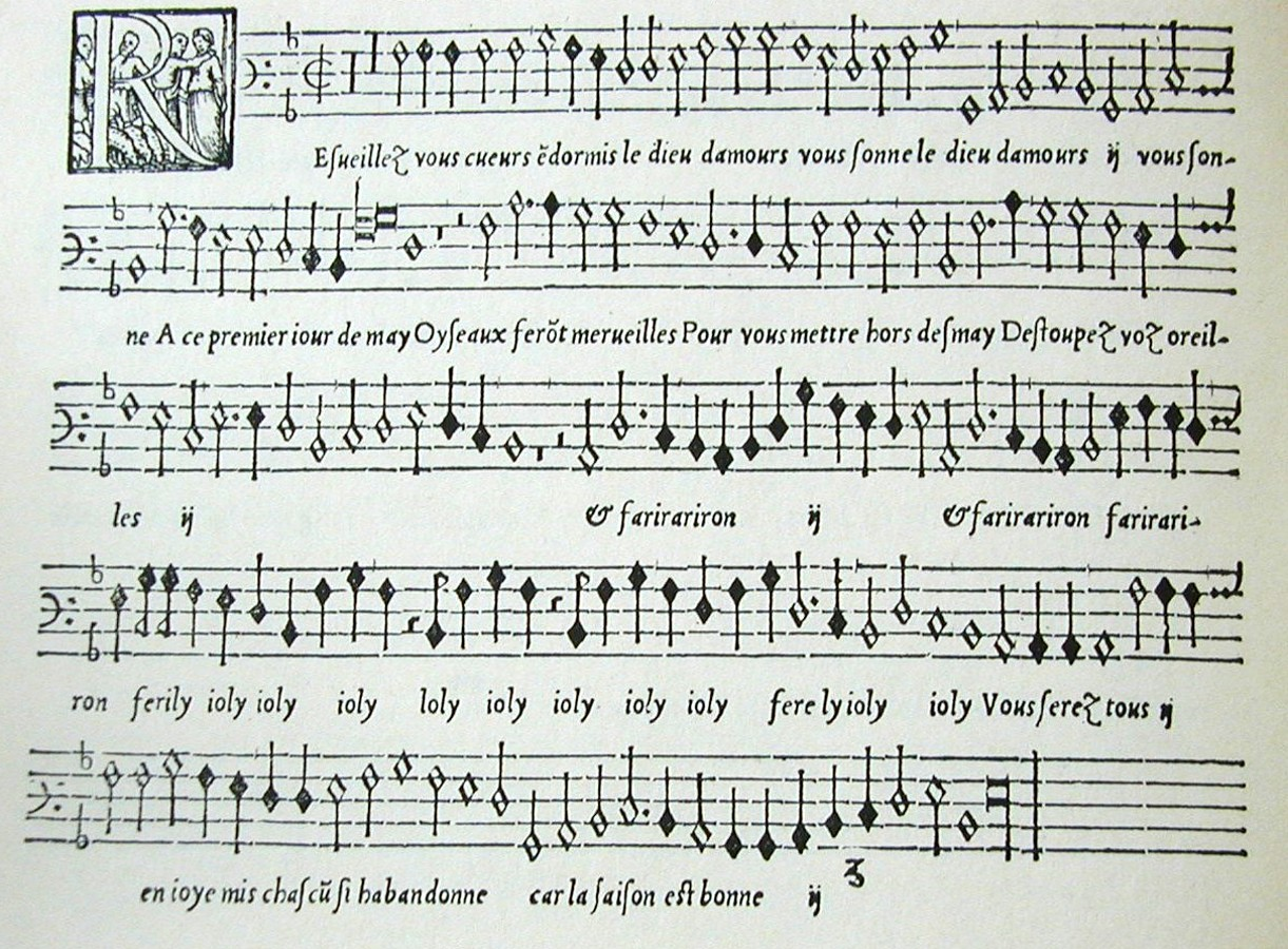 Nicolas Gombert's "Le Chant des Oyseaux" score page. 1545.